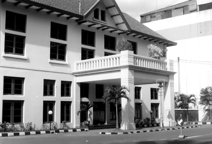 Sepotong bangunan yang tersisa dari Pabrik Gas yang menjadi Kantor Gas Negara